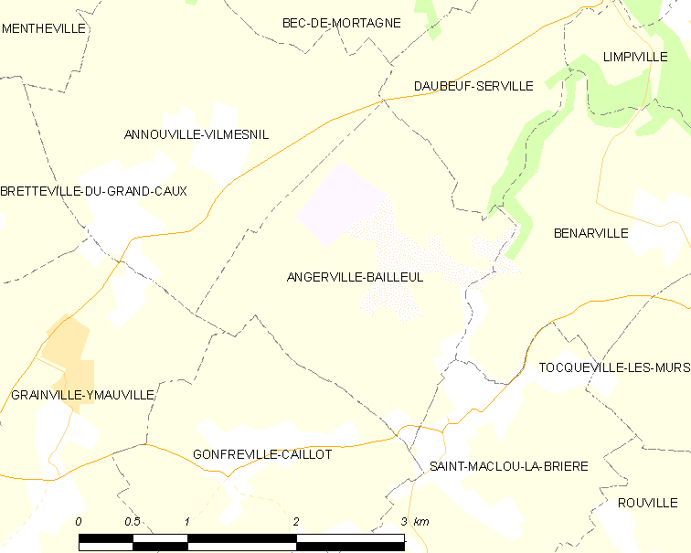 Map of French municipality Angerville-Bailleul